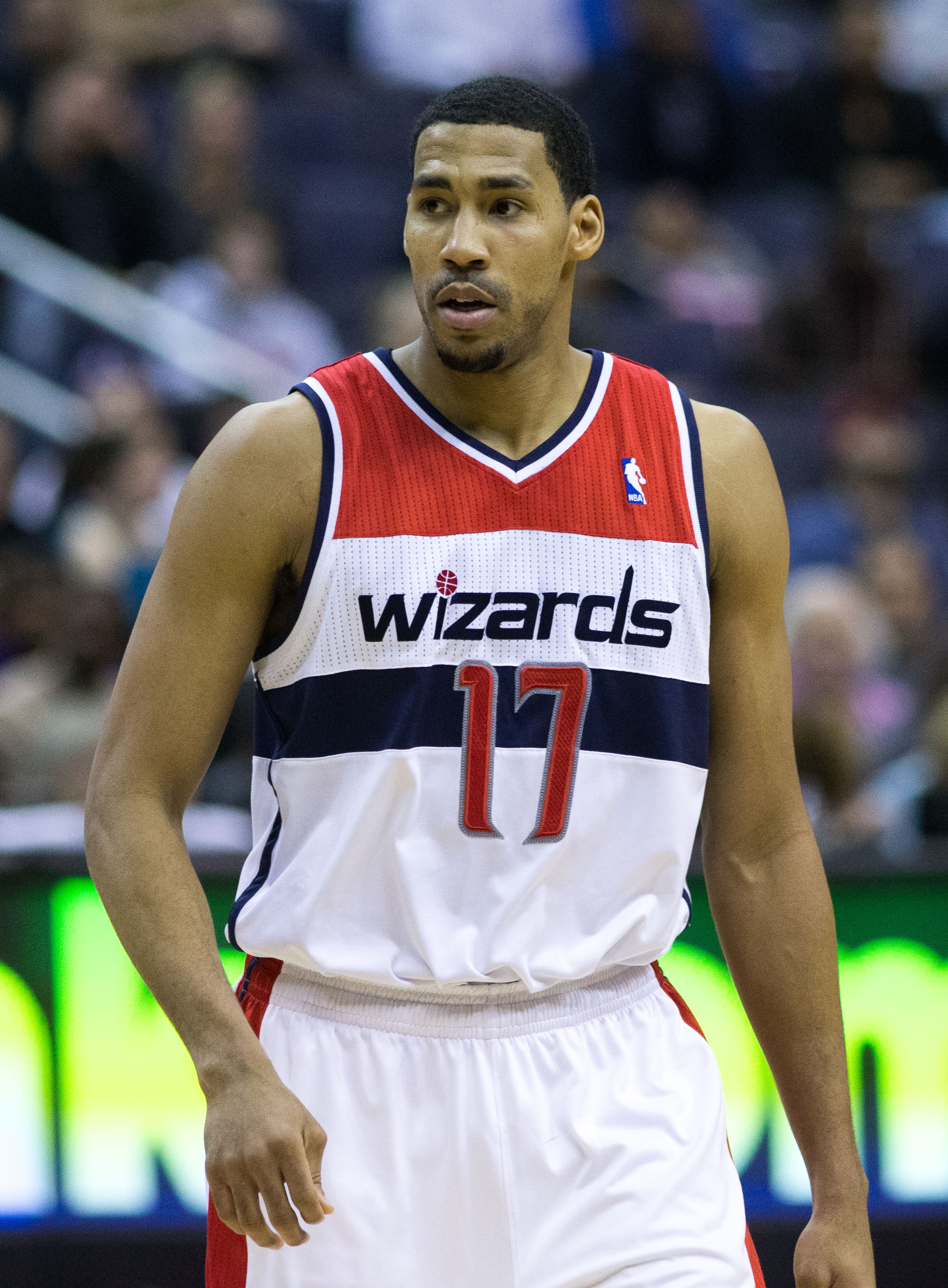 New Orleans Hornets at Washington Wizards March 15, 2013